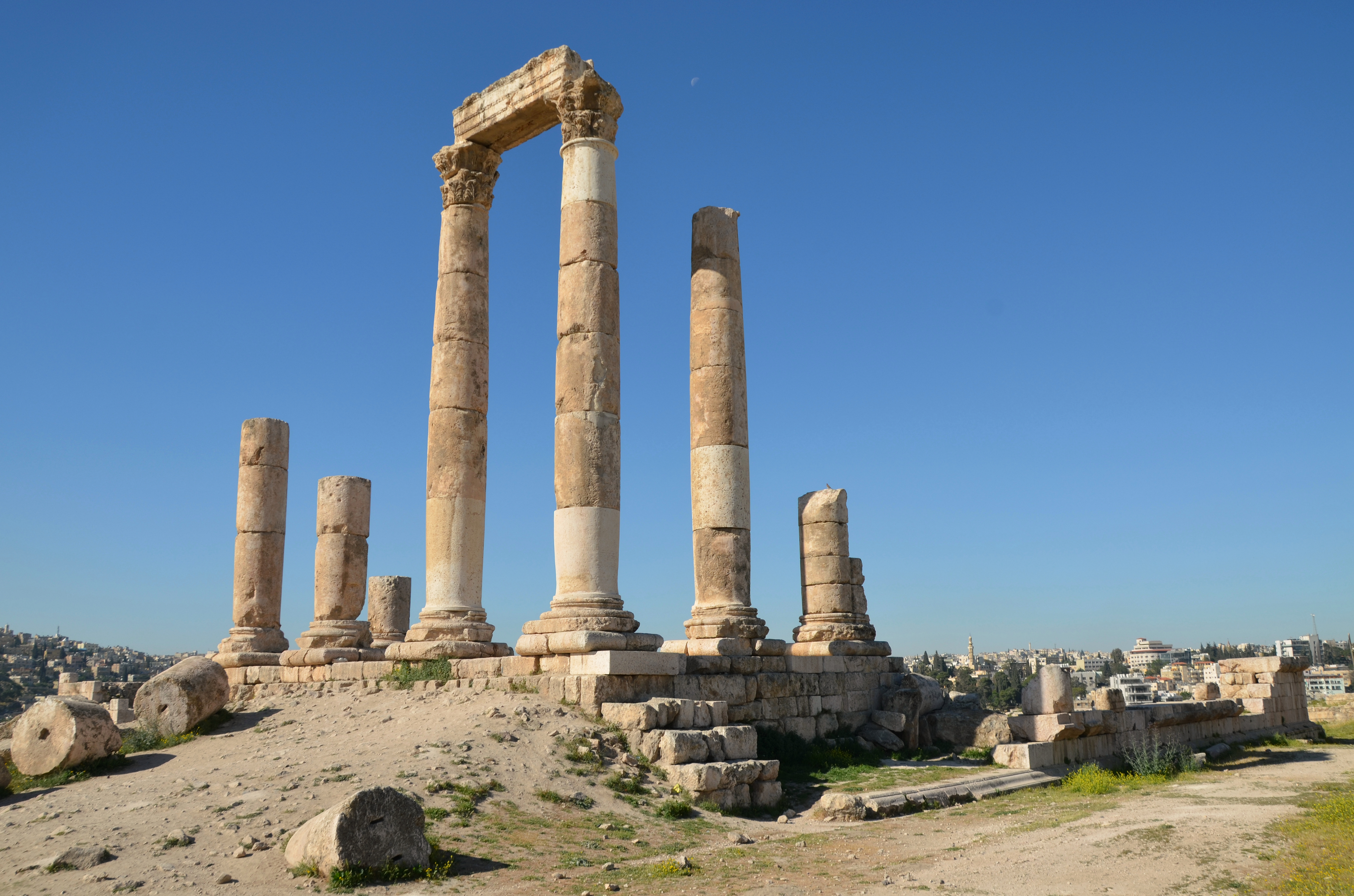 The temple is about 30 meters long by 24 meters wide and additional with an outer sanctum of 121 meters by 72 meters. The portico has 6 columns about 10 meters tall. Archaeologists believe that since there are no remains of additional columns the temple was probably not finished, and the marble used to build the Byzantine Church nearby.